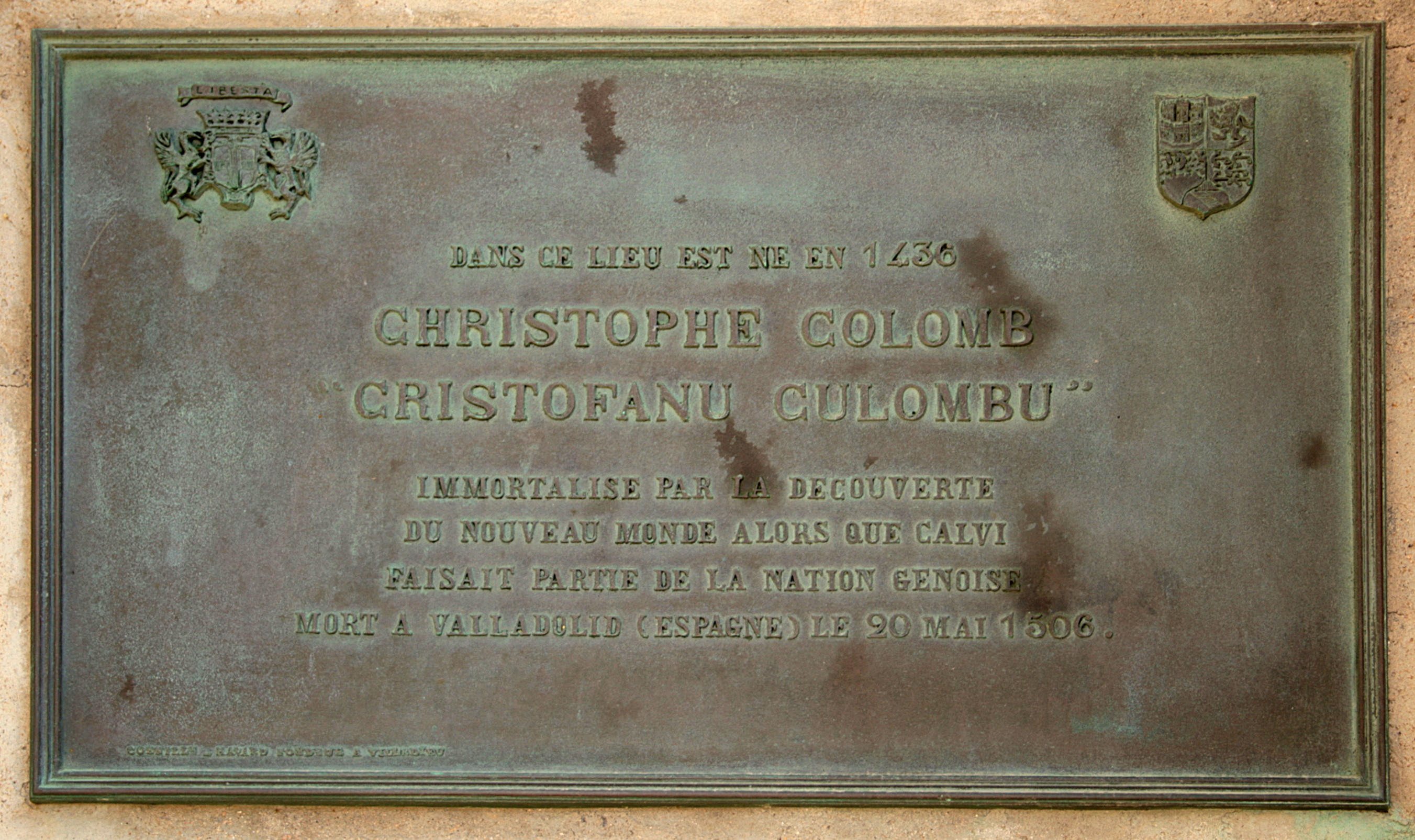 Calvi (Haute-Corse) - Commemorative plaque on the ruins of the supposed home of Christopher Columbus.